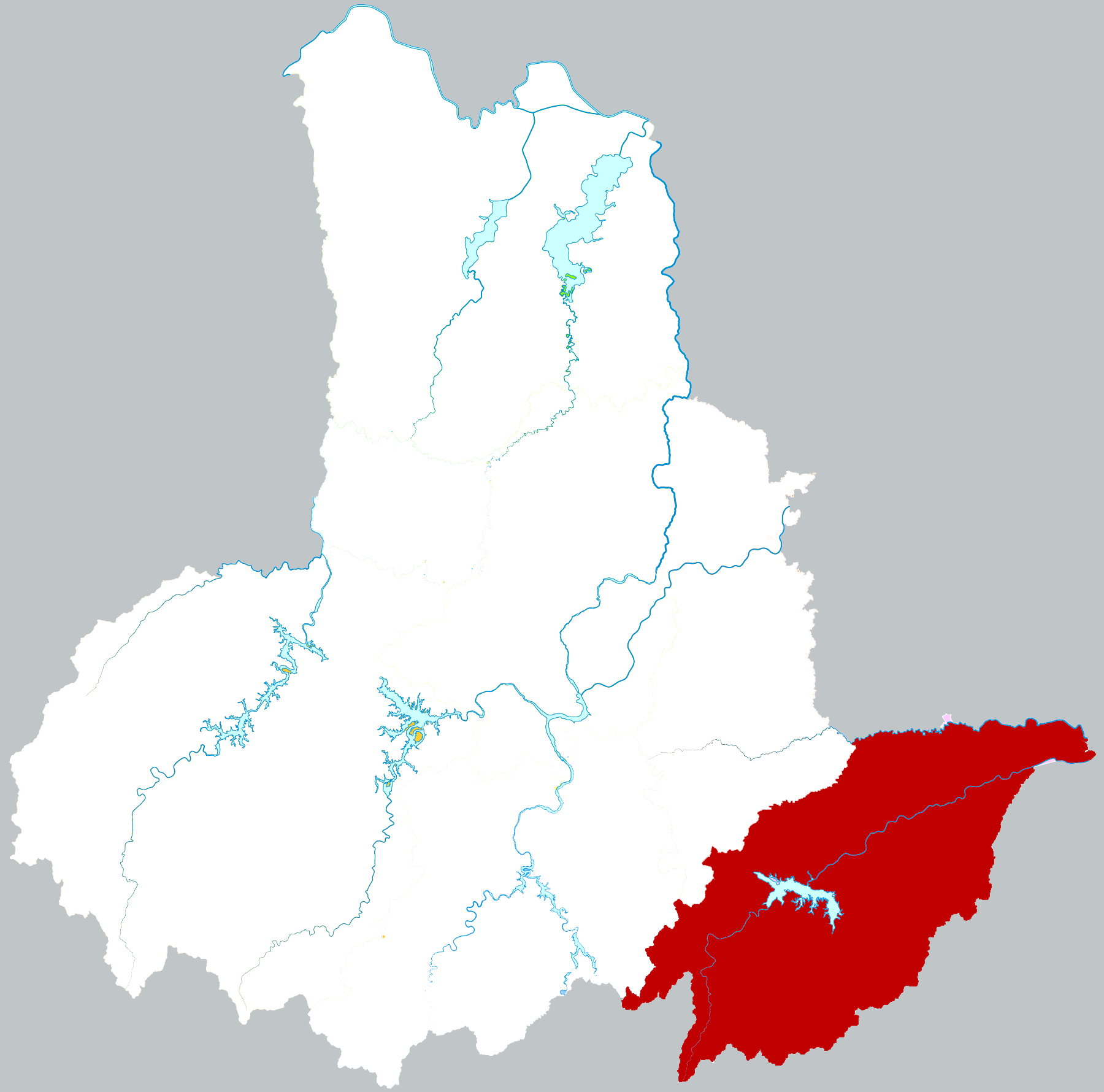 Location of Shucheng county in Lu'an city, China